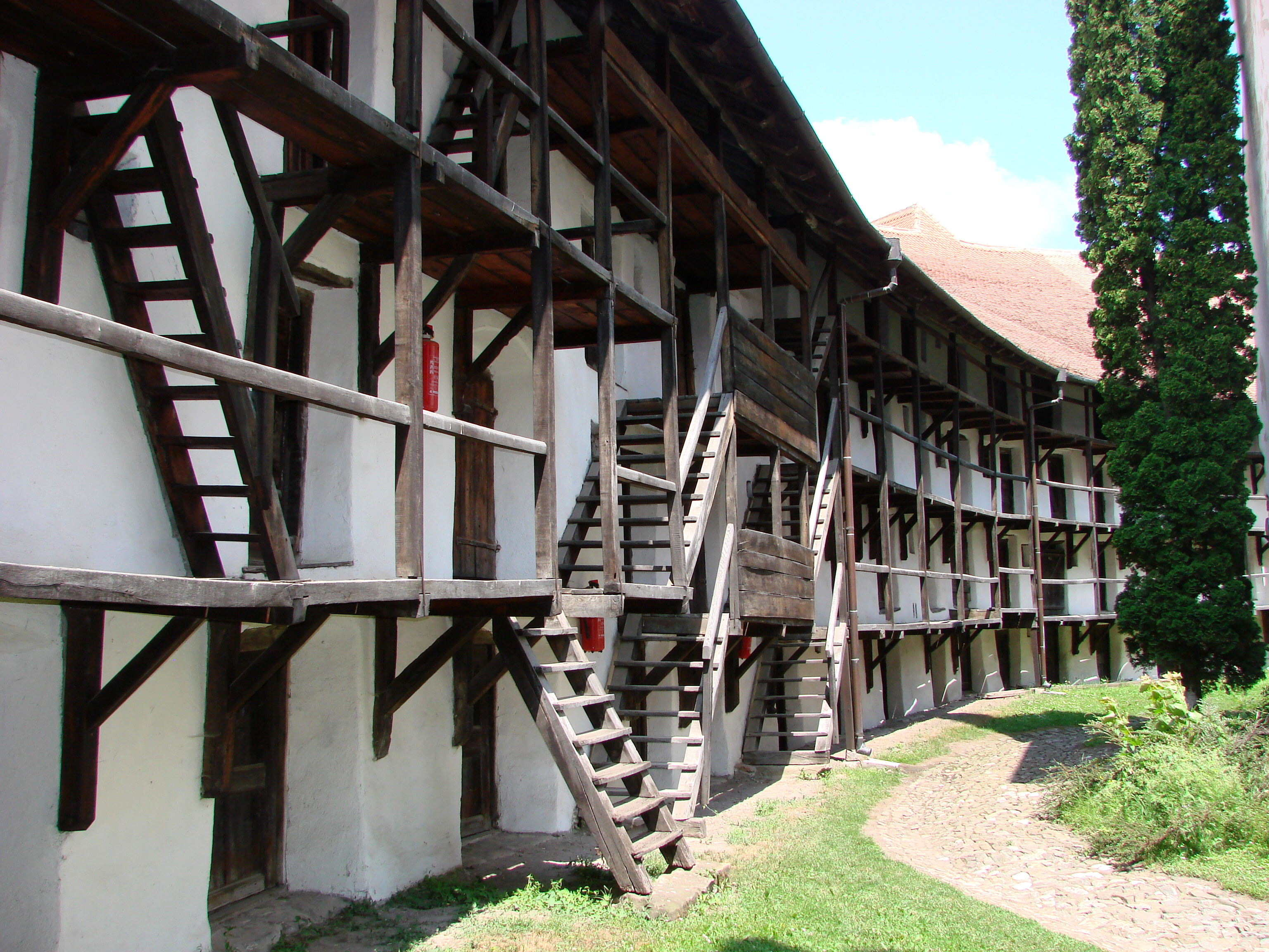 Fortified buildings around Gothic Evangelical church at Prejmer, Romania. June 2007.